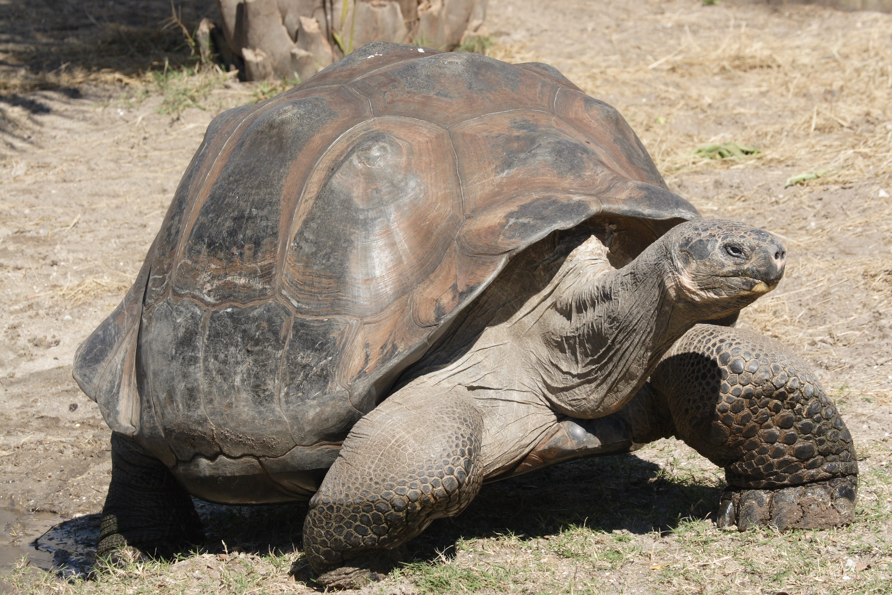 A dome-shelled Galápagos giant tortoise, Chelonoidis nigra